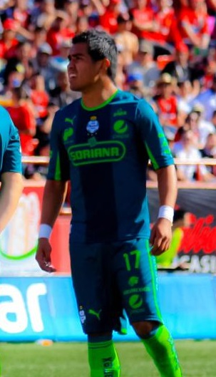 Mexican player Rodolfo Salinas